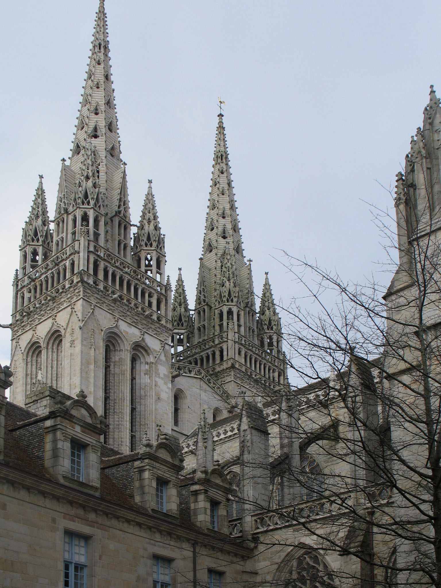 Vue méridionale des flèches de la cathédrale Saint‑Corentin, Quimper (France)